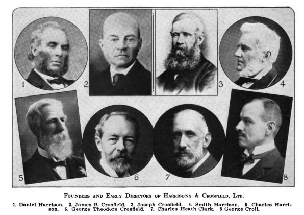 Daniel Harrison, James B. Crosfield, Smith Harrison, Charles Harrison, George Theodore Crosfield, Charles Heath Clark, George Croll of Harrisons & Crosfield